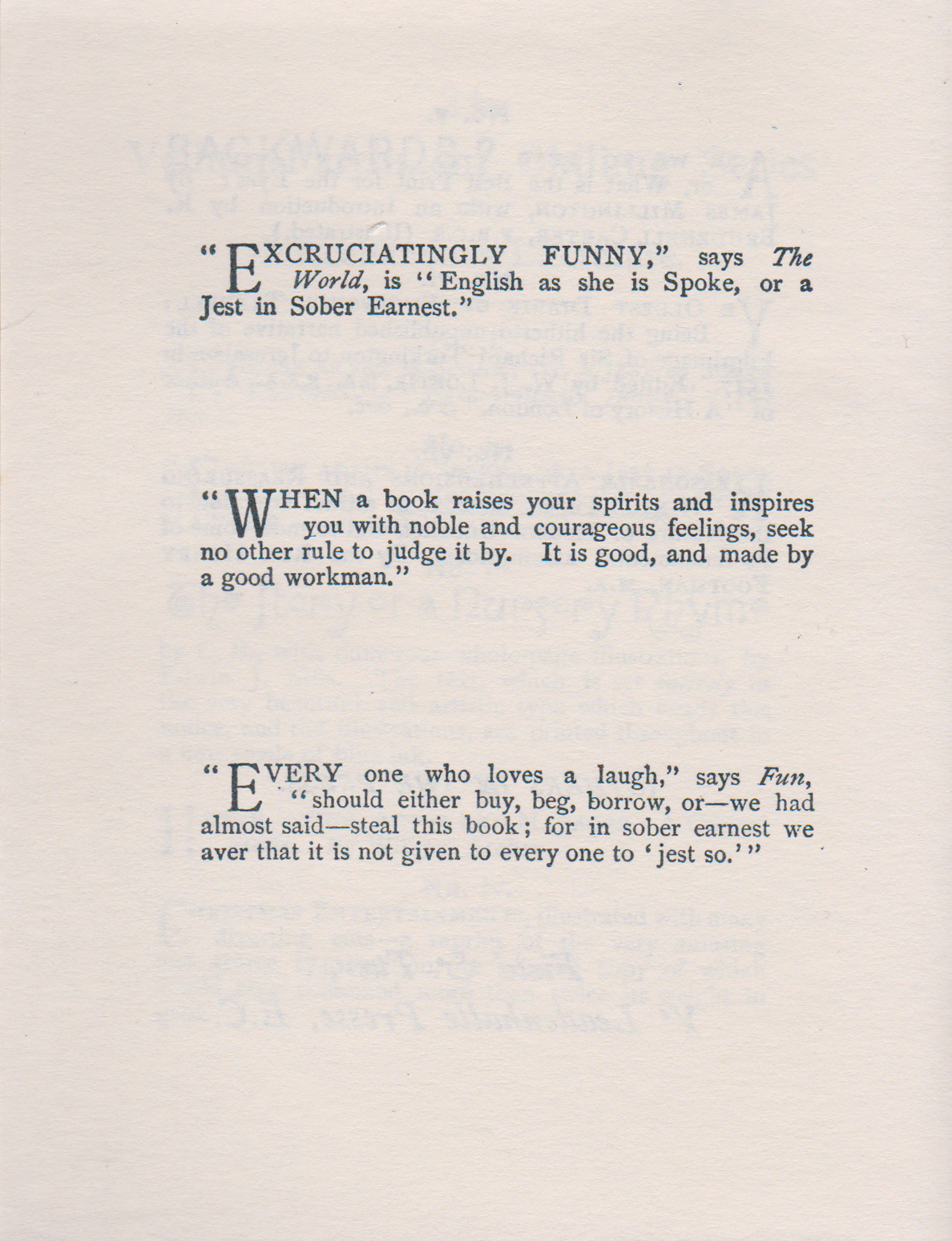 Press review in Her Seconds part.